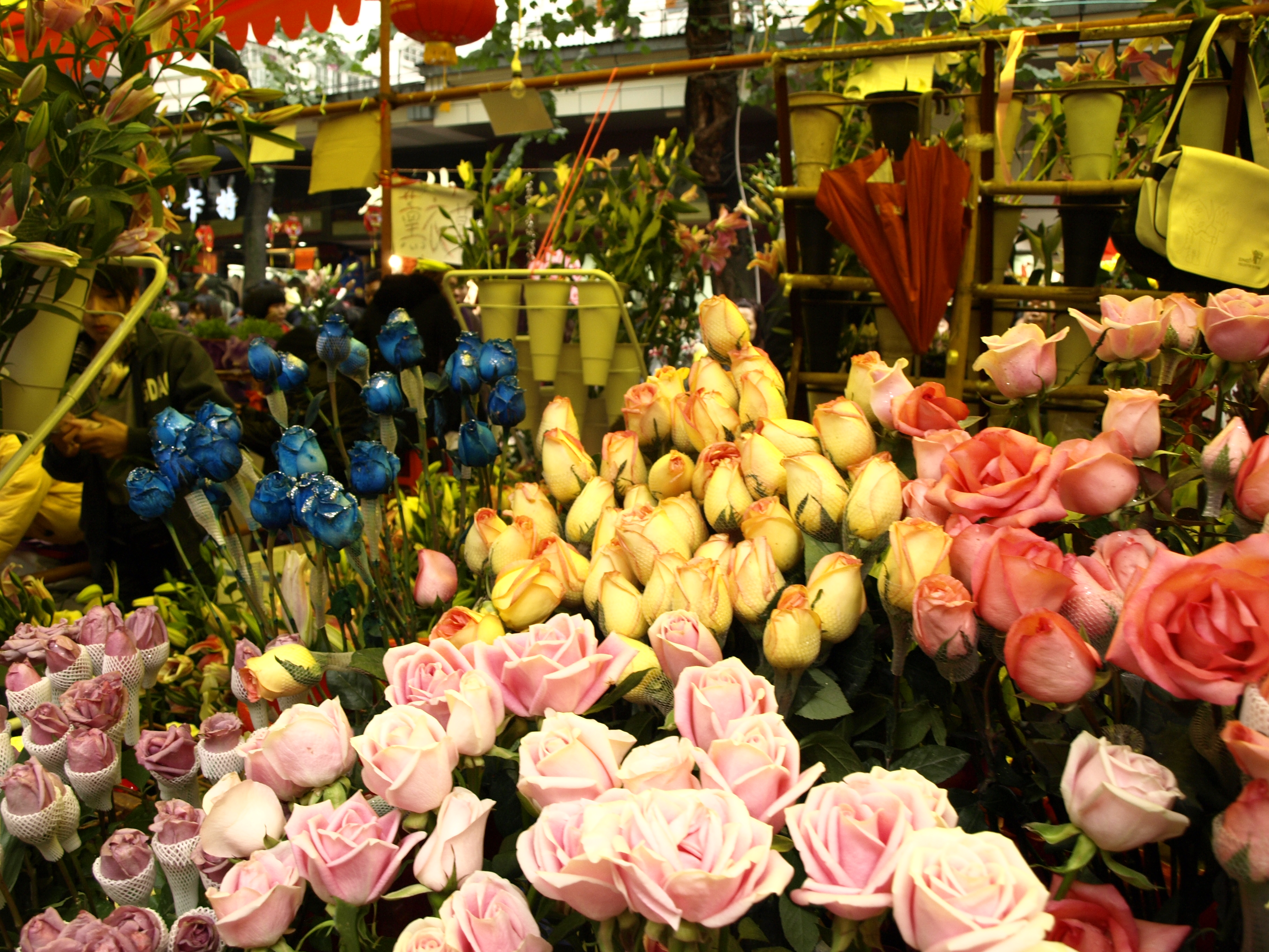 Flowers in the Chinese New Year Fair in Canton, 2010